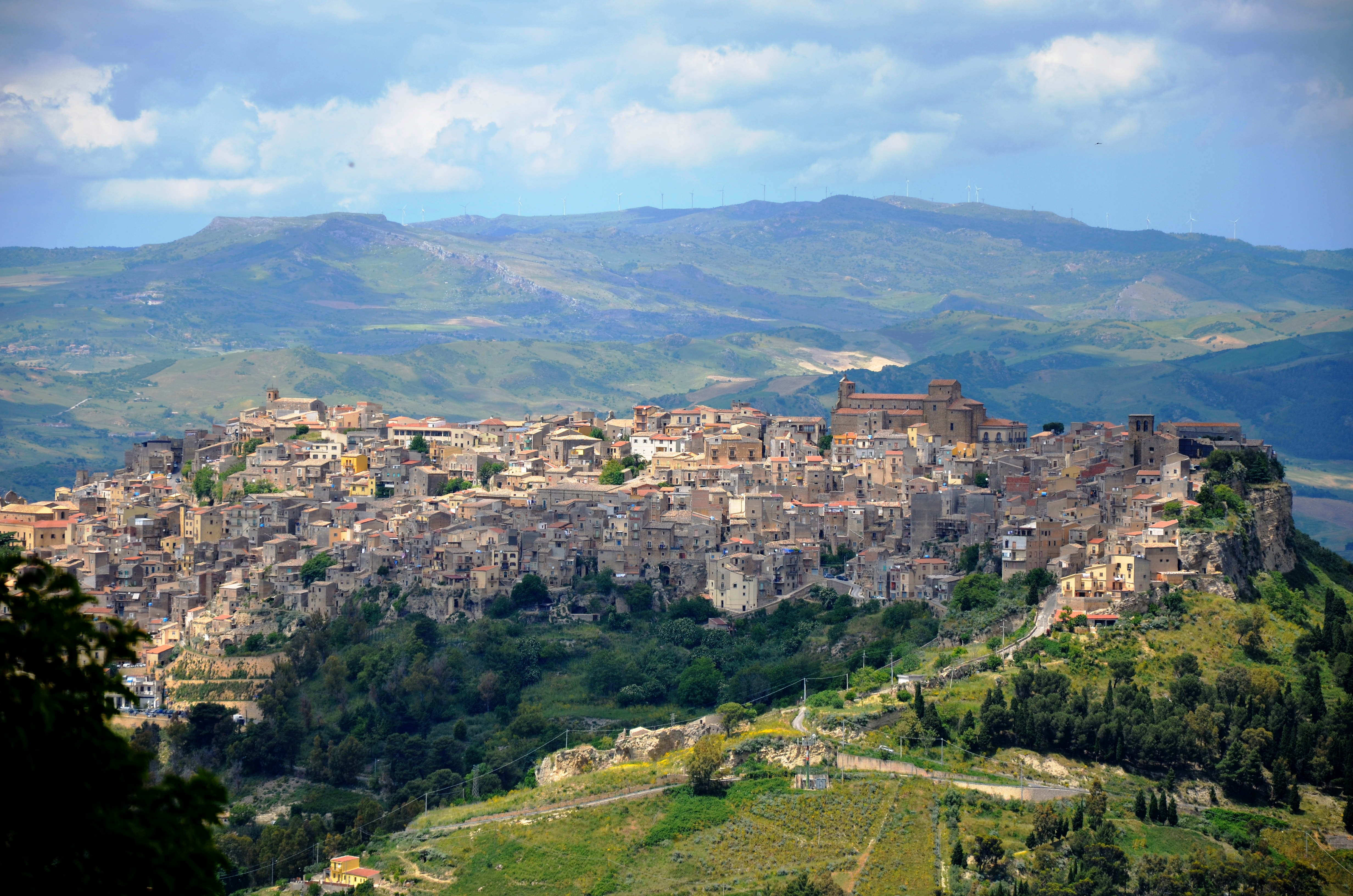 View from Enna on Calascibetta in Sicily